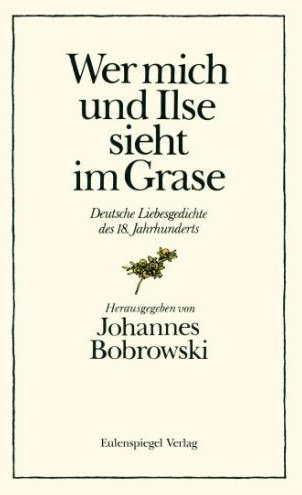 Book cover of "Wer mich und Ilse sieht im Grase" by Johannes Bobrowski